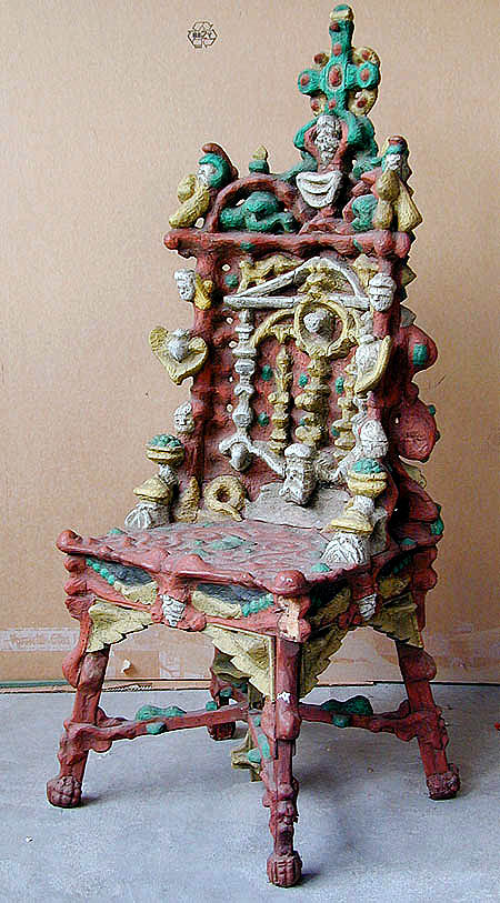 outsider art chair karl junker